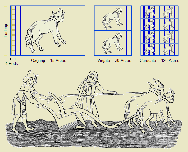 This derivative work depicts six historical units of land measurement: the furlong, the rod, the oxgang, the virgate, the carucate, and the acre. This work is a derivative of Ploughmen.--Fac-simile of a Miniature in a mediaeval manuscript published by Shaw, with legend "God Spede þe plough, and send us korne enow." Note that "þe" should be transliterated "the". Project Gutenberg text 10940 Title: Manners, Custom and Dress During the Middle Ages and During the Renaissance Period